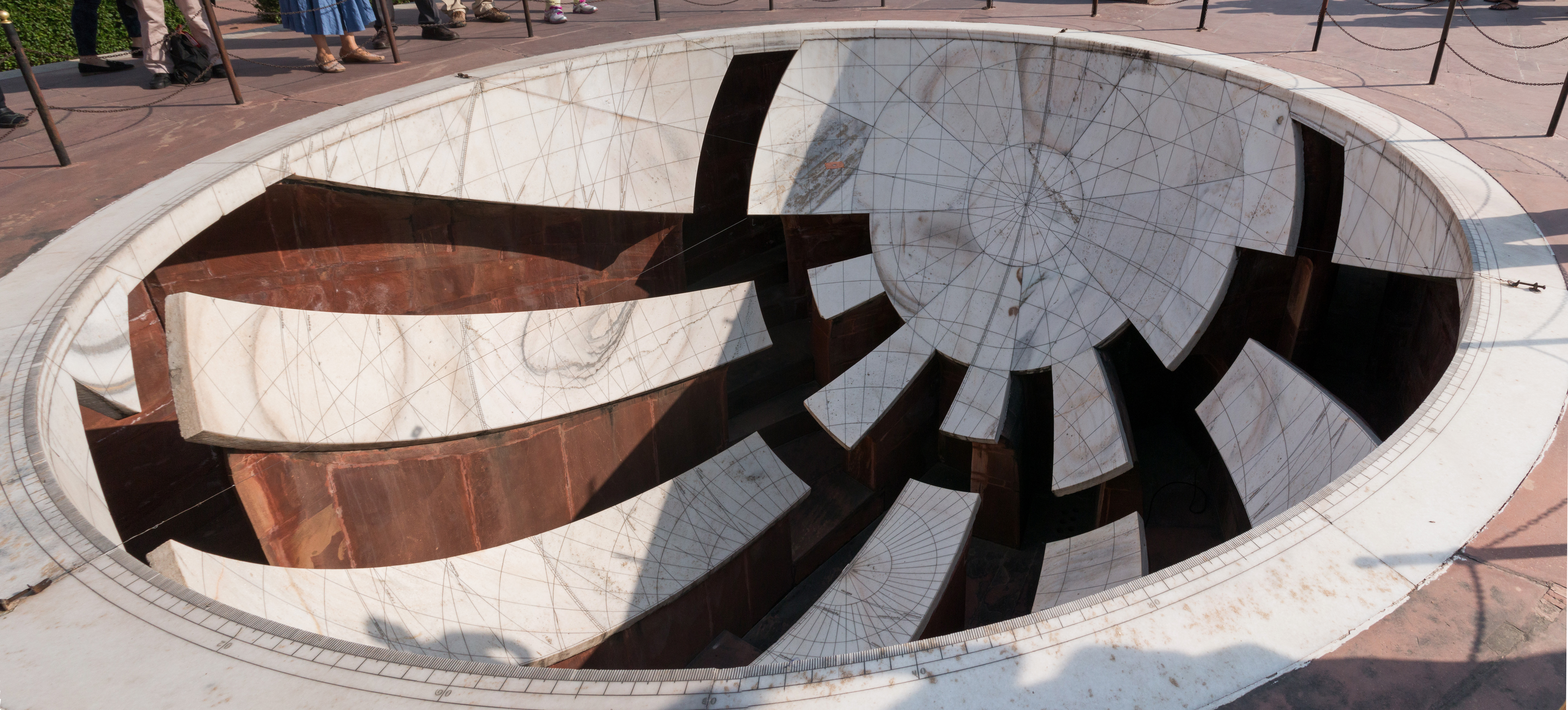 The hemispheres of the observatory Jaya Prakâsh (Triomphe de la lumière), allowed to identify, on an hour long observation, the trajectory of a star, day and night in the northern sky.